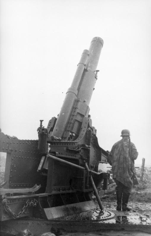 Information added by Wikimedia users.Skoda 220 mm howitzer, German designation 22 cm Mörser 538(j)/(p).